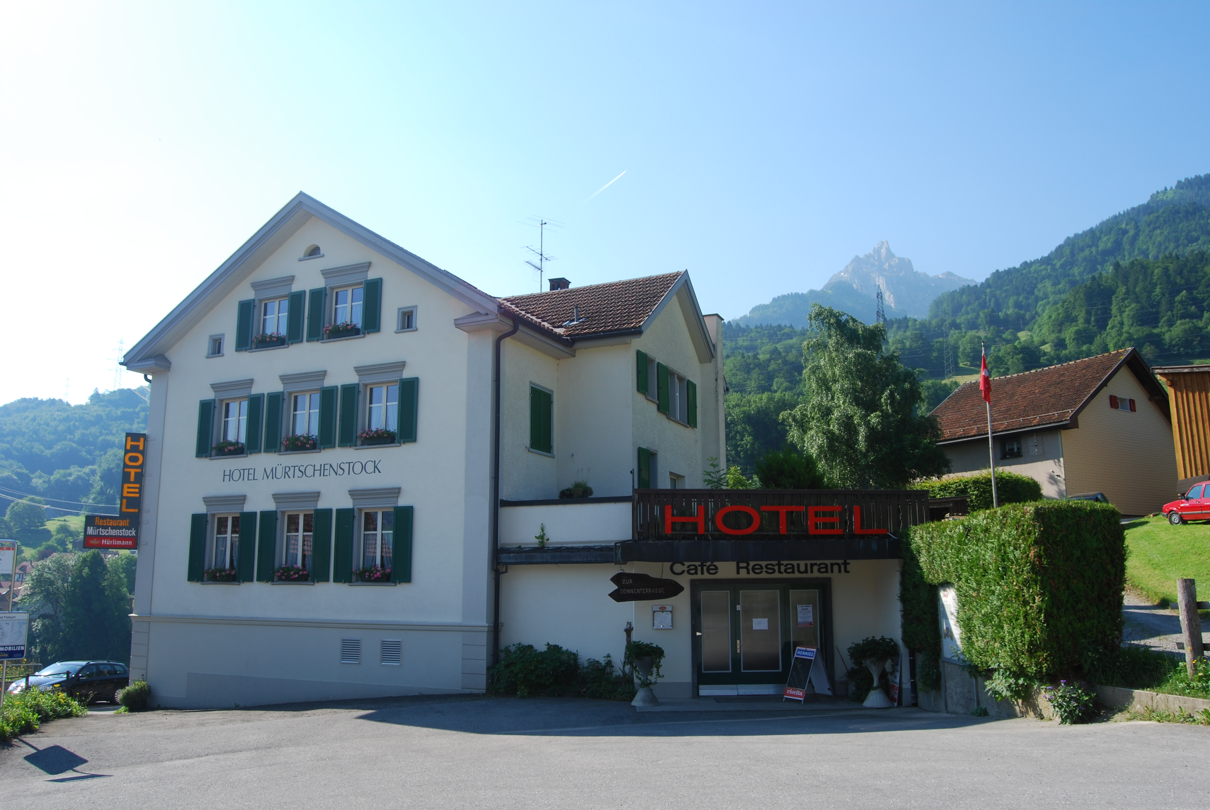 Hotel Mürtschenstock at Filzbach with view to Mürtschenstock, canton of Glarus, Switzerland